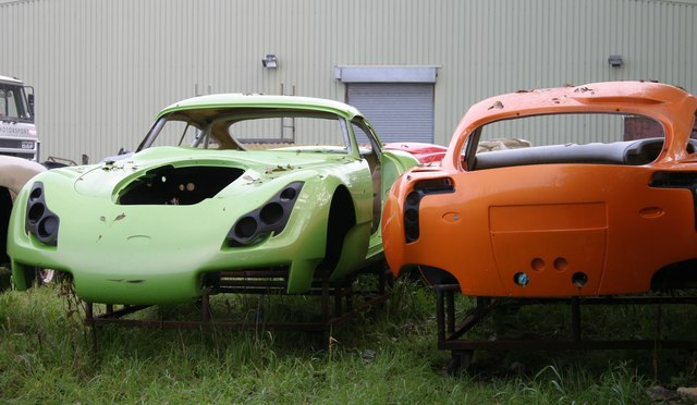 Going nowhere These two shells are sitting in the back of a yard gathering water.